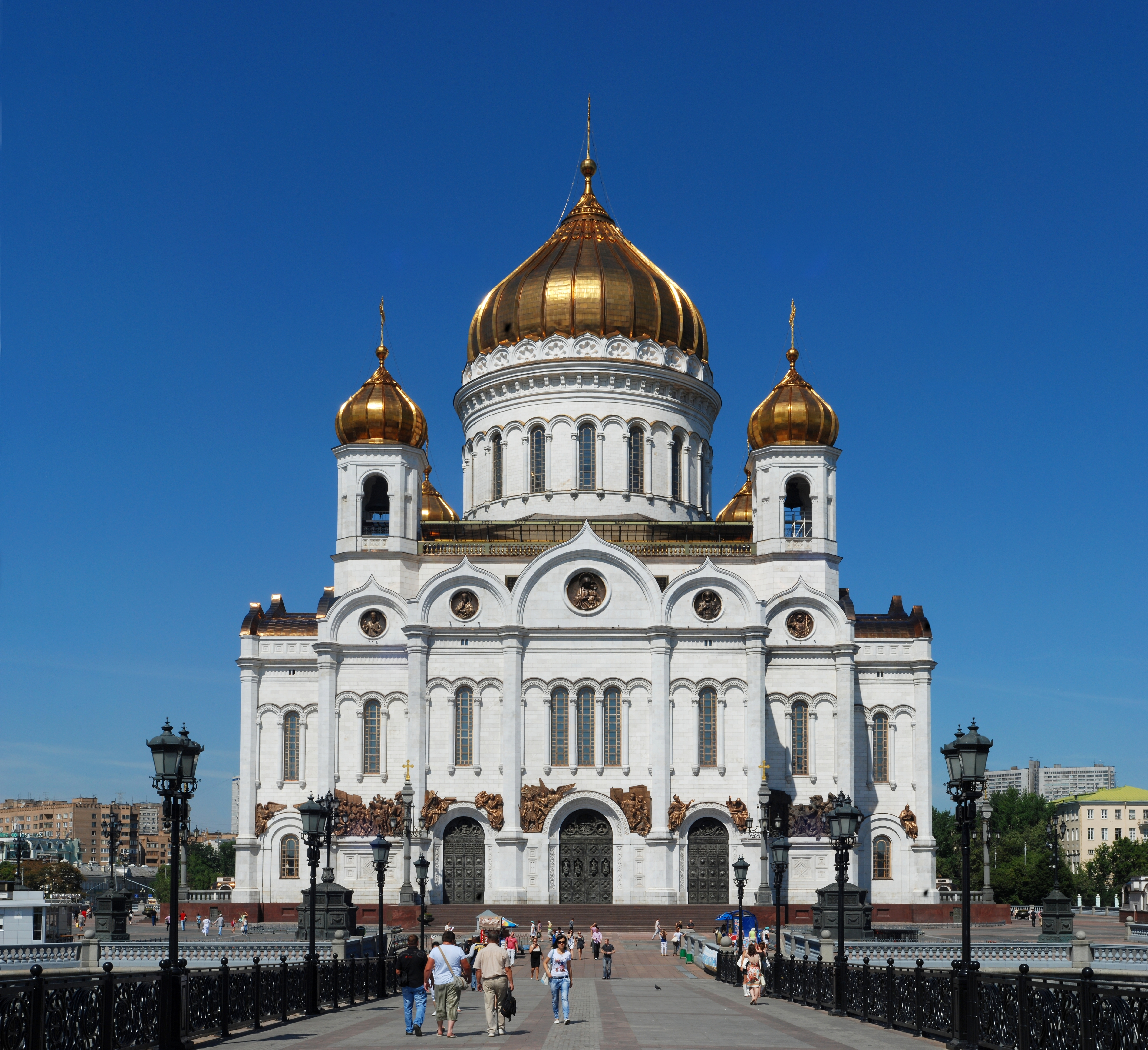 Cathedral of Christ the Saviour, Moscow. View from souttheast